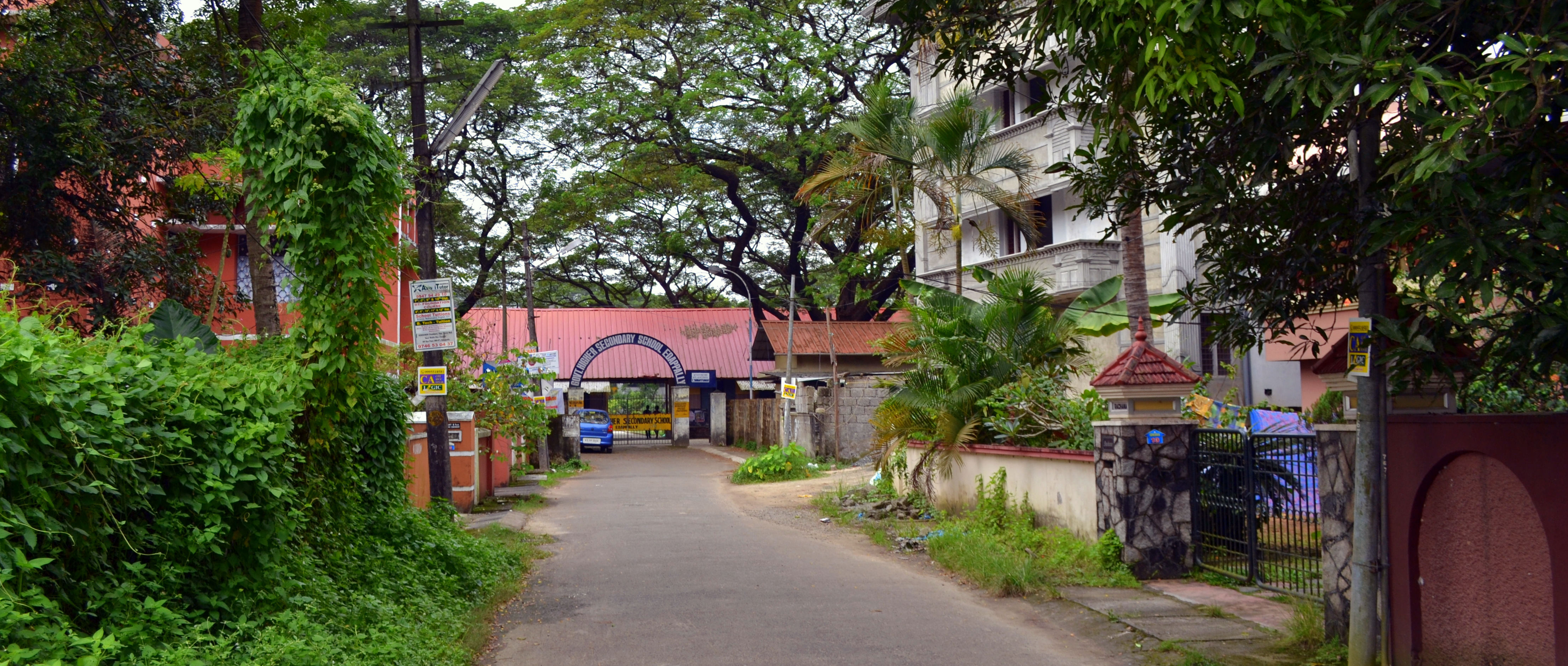 Govt. HSS Edapally